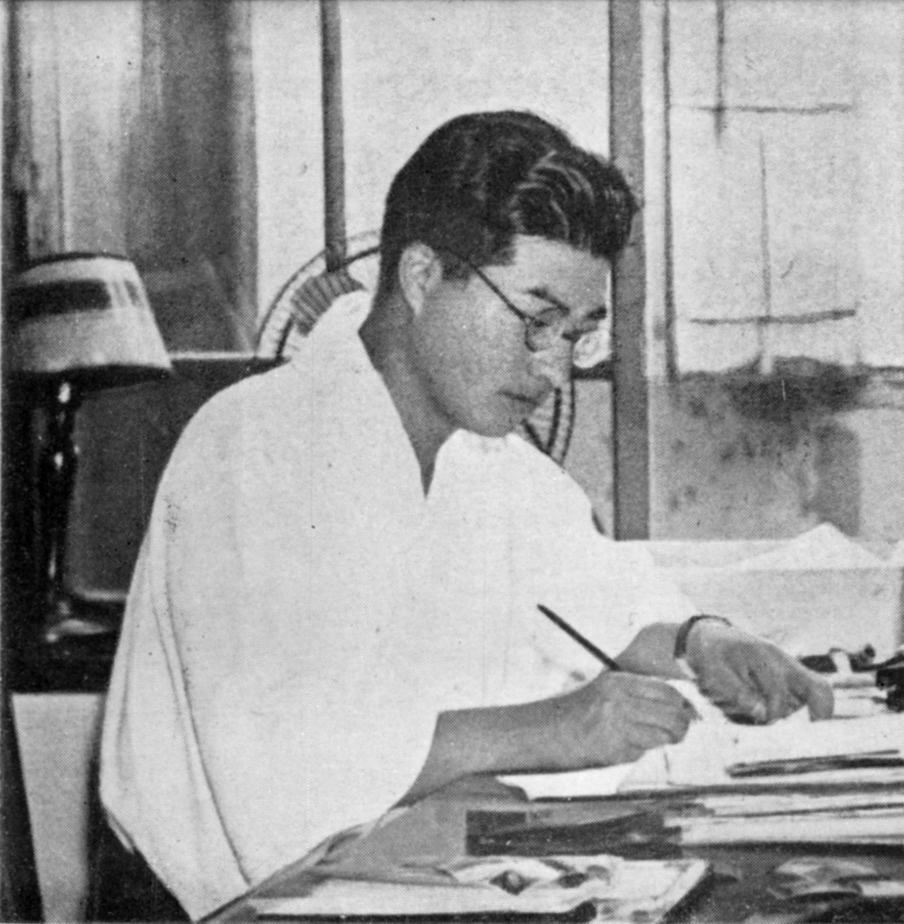 Japanese Noh student KOBAYASHI Shizuo(1909-1945)